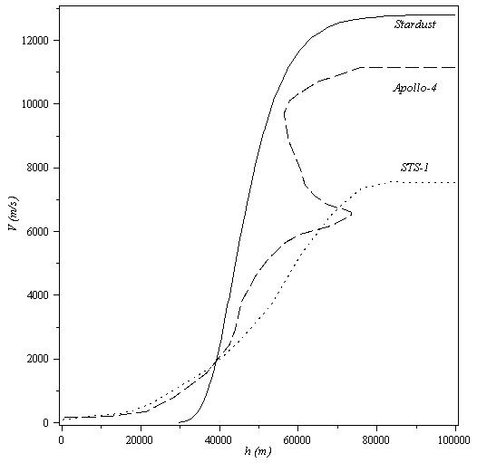 Figure describing some Earth entry trajectories (speed-altitude)